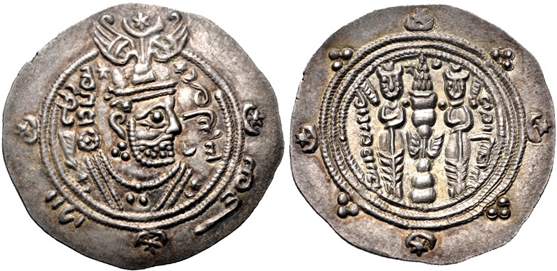 Coin of Gil Gavbara, also known as Farrukhan Gilanshah, or simply Gilanshah, Jilanshah or D̲j̲īlāns̲h̲āh.